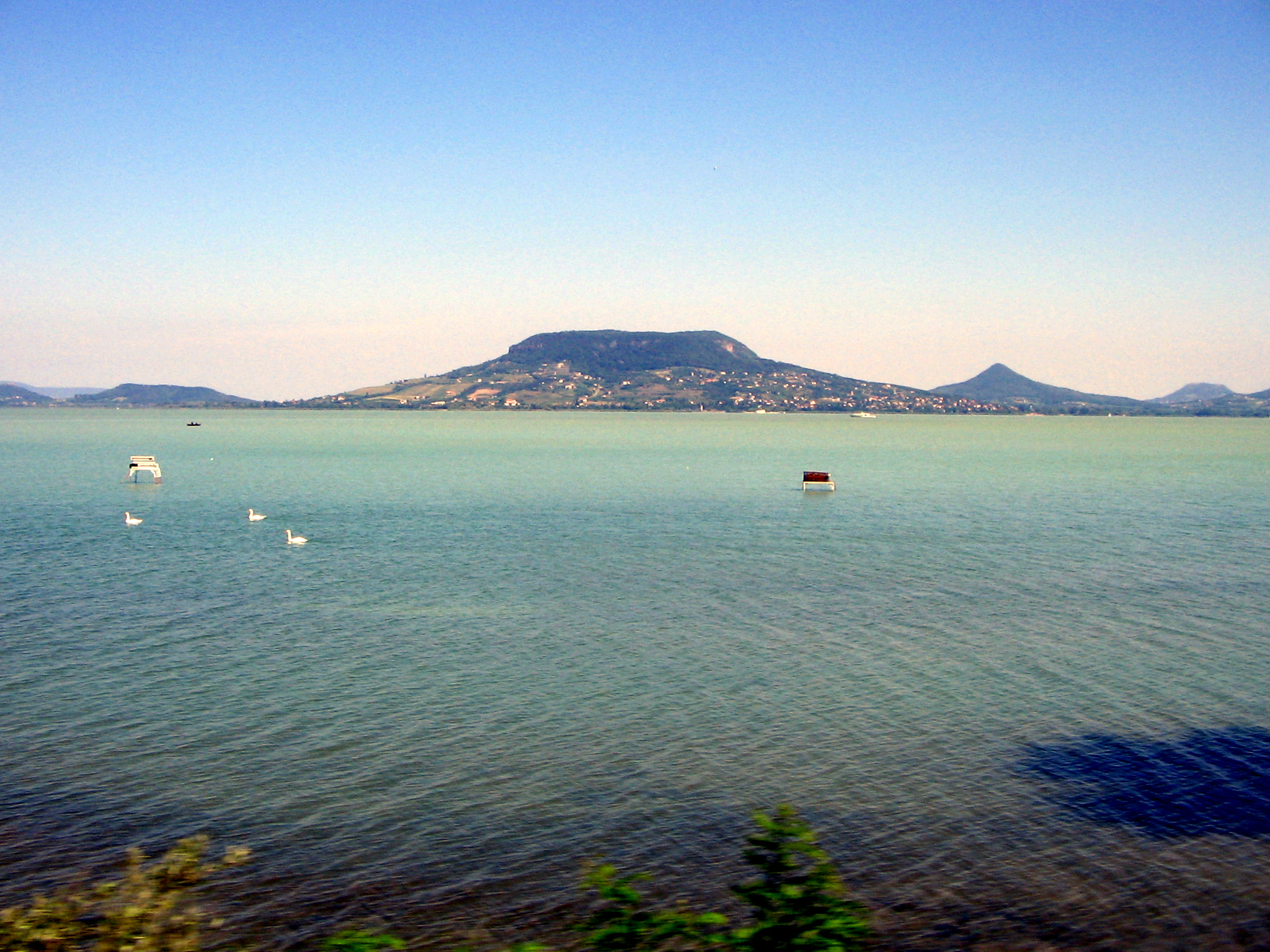 Badacseny. Balaton. By Victor Belousov.